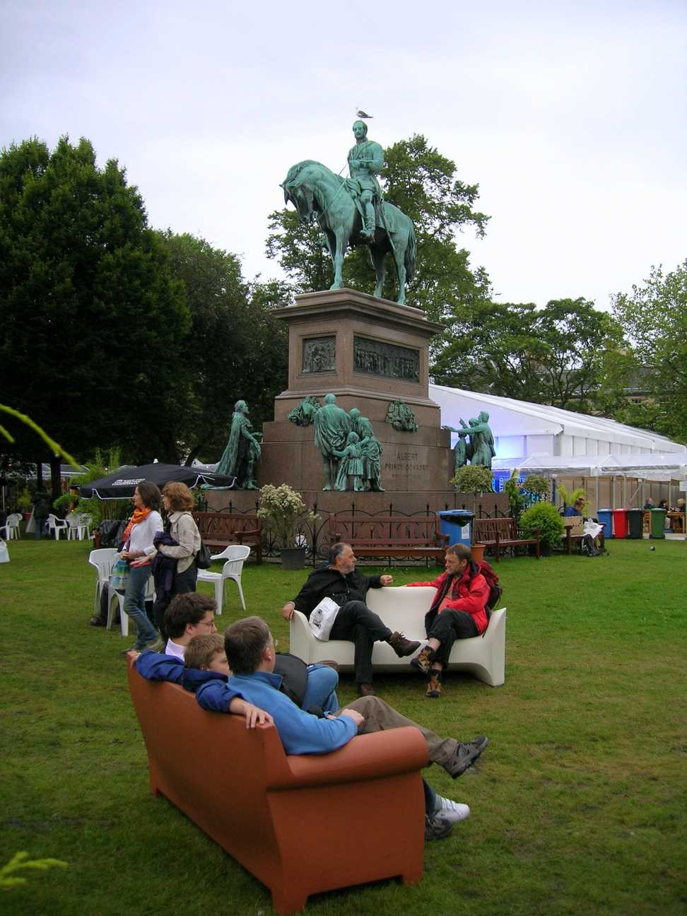 Edinburgh International Book Festival, Charlotte Square, 2007